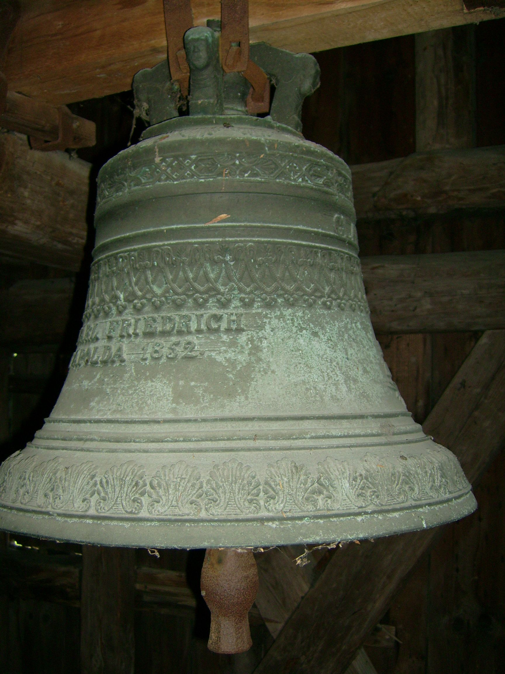 Mechelroda gl